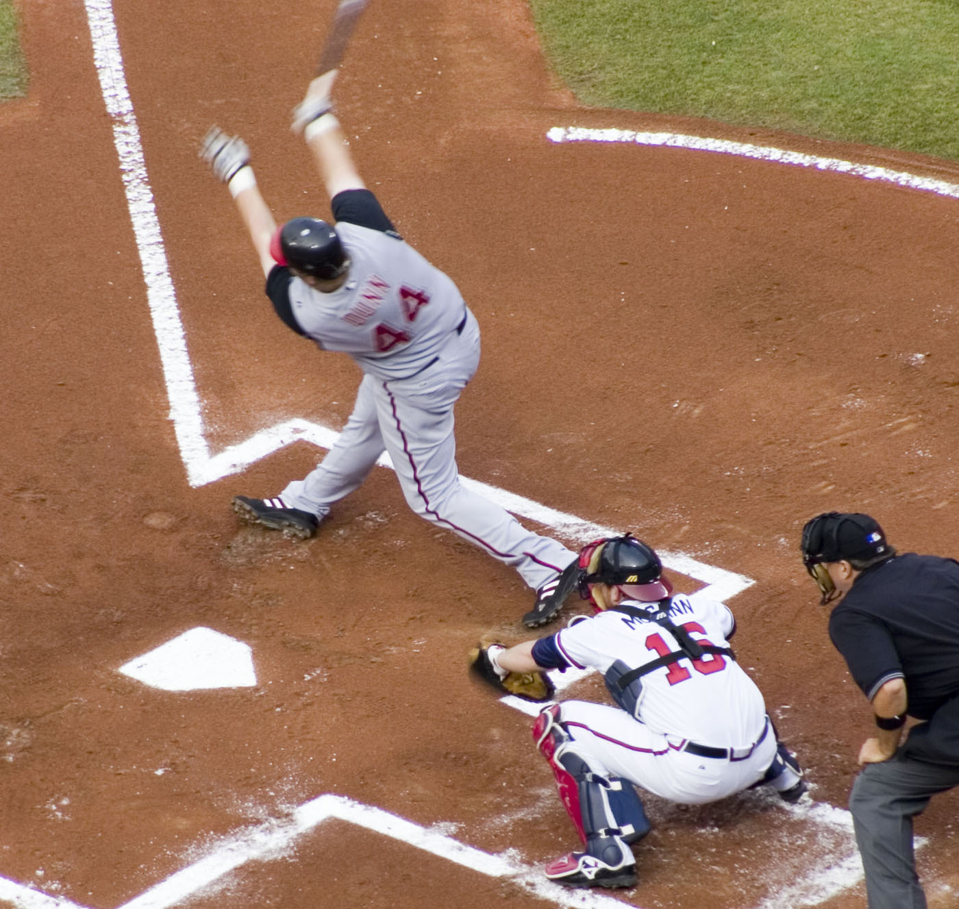 Cincinnati Red's outfielder Adam Dunn strikes out swinging to Atlanta Braves pitcher John Smoltz. Braves' catcher Brian McCann catches the pitch behind the plate.